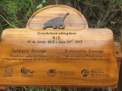 “Geochelone abingdoni R.I.P. June 24th, 2012 Lonesome George We promise to tell your story and to share your conservation message.” Plaque commemorating the life of Lonesome George in "Centro de Crianza de tortugas terrestres Fausto Llerena" on the island of Santa Cruz, Galapagos Islands.